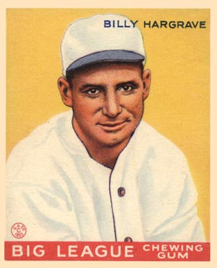 1933 Goudey baseball card of Billy "Pinky" Hargrave of the Boston Braves #172. PD-not-renewed